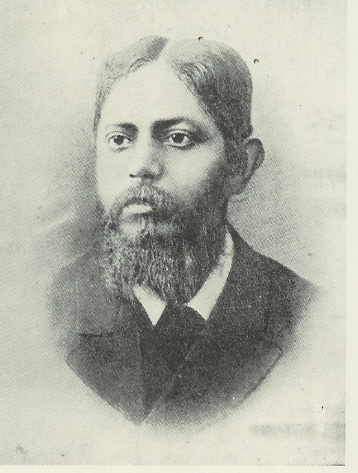 Ananda Mohan Bose, founder of Anandamohan College, Calcutta. Pic from Bethune School and College Centenary Volume 1949. No copyright. Ananda Mohan Bose died in 1906